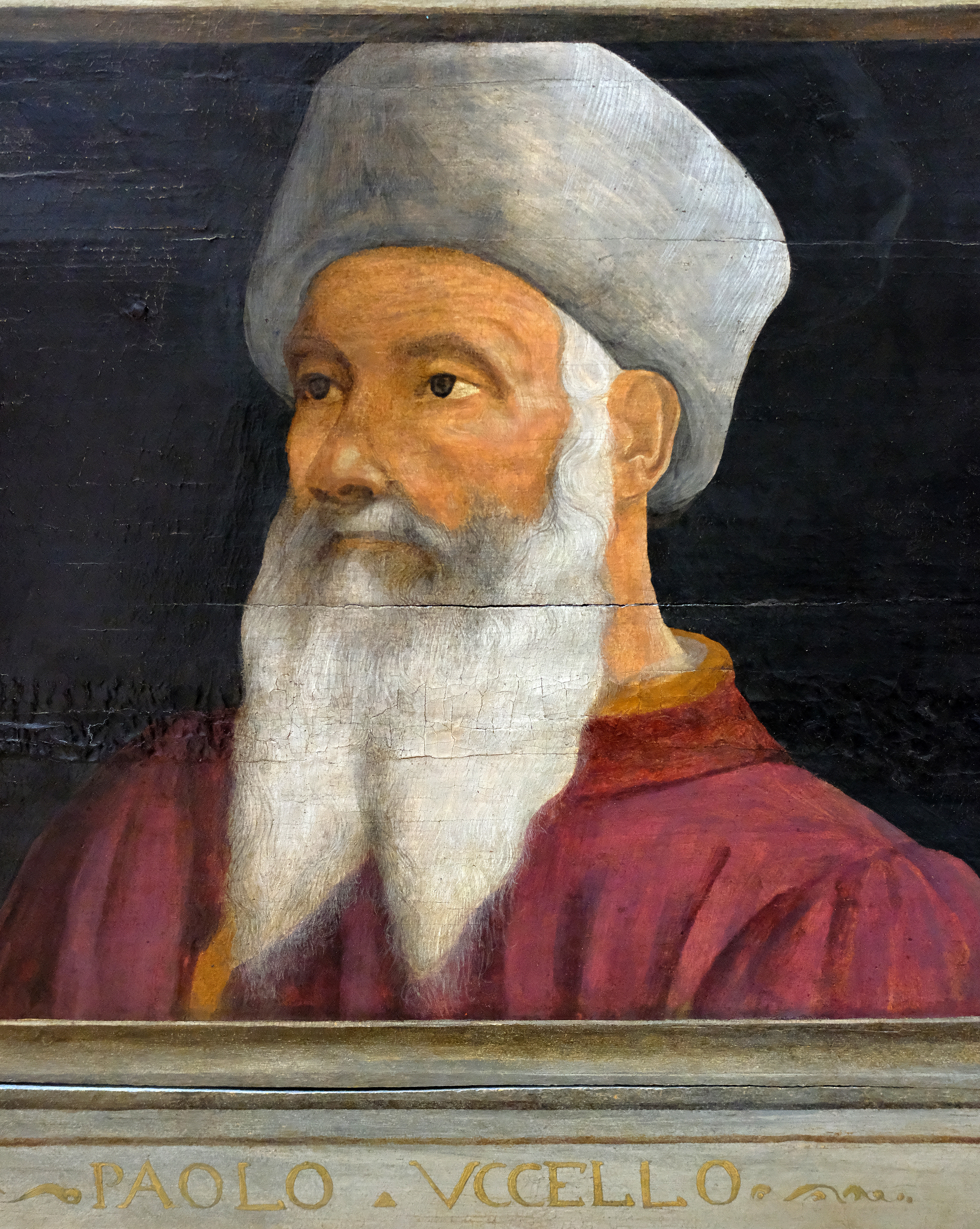 Portraits of Giotto, Paolo Uccello, Donatello, Antonio Manetti et Filippo Brunelleschi